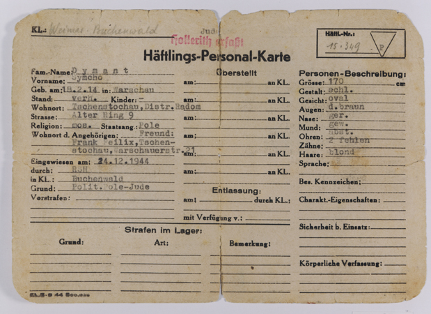 Buchenwald Concentration Camp Prisoner Data Card for Symcho Dymant. Symcho Dymant was born February 18, 1914 in Warsaw. He was married before the war but had no children. Prior to his deportation he lived on Alter Ring 9 in Czestochowa. He arrived in Buchenwald on December 12, 1944. The data card indicates that Dymant’s personal data had been transferred onto a Hollerith machine punch card.